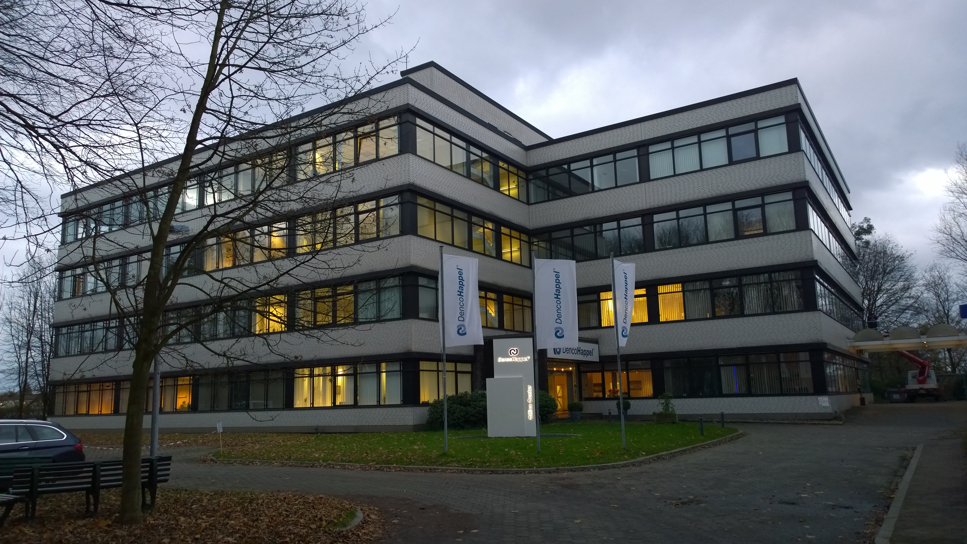 DencoHappel Suedstrasse Herne 20151116